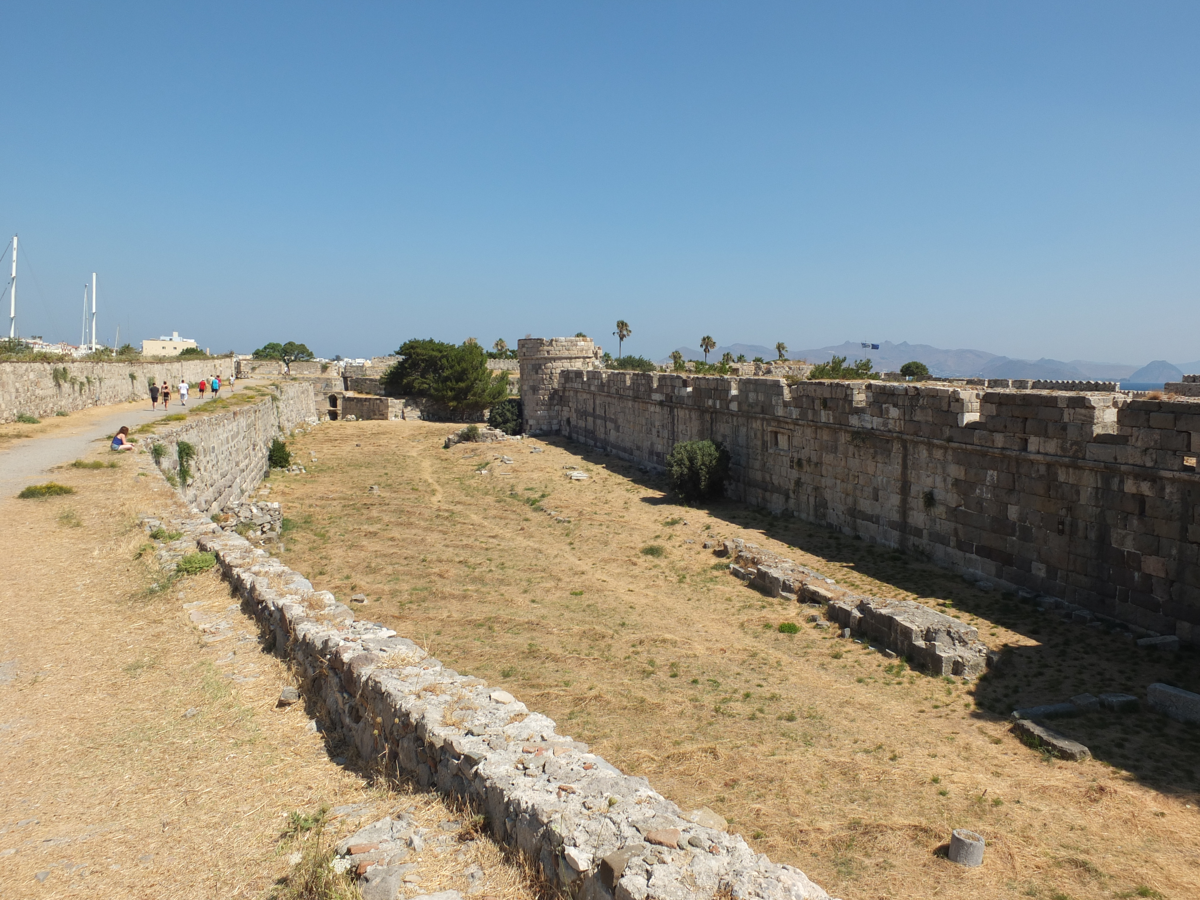 Castle of the Knights of Saint John on Kos.